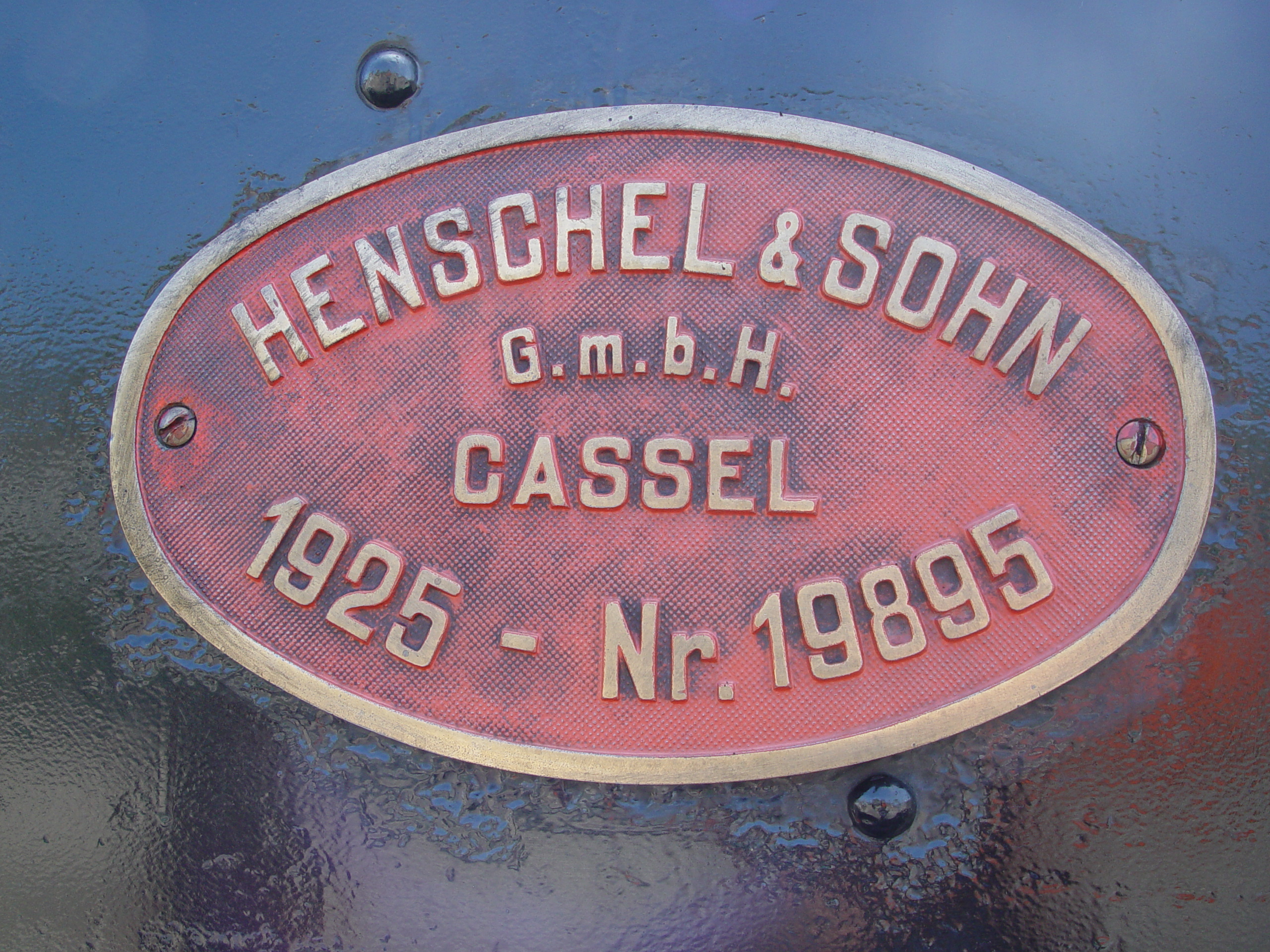 Henschel & Son locomotive in Linha do Douro, Portugal